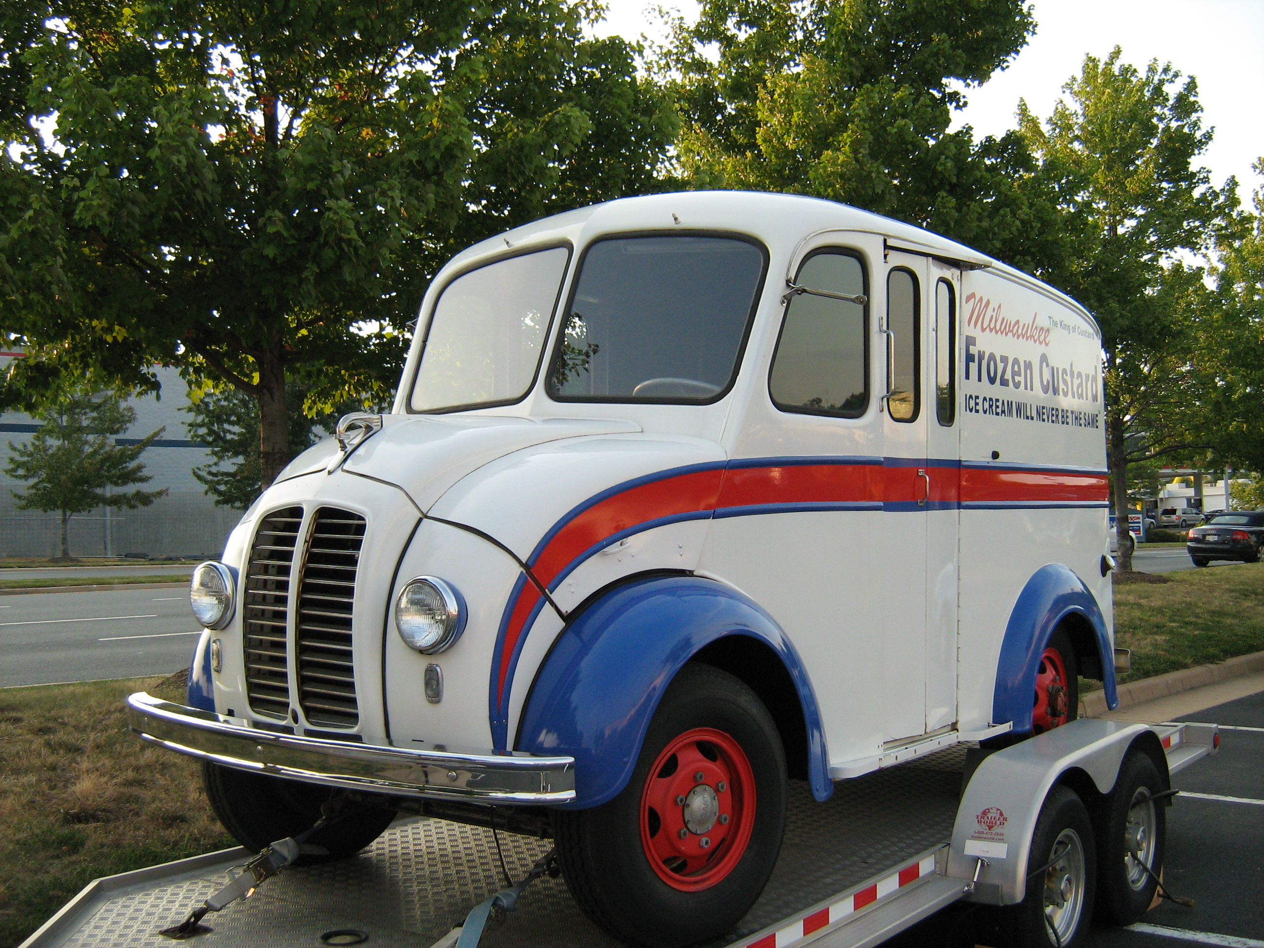 Divco delivery truck (front view)